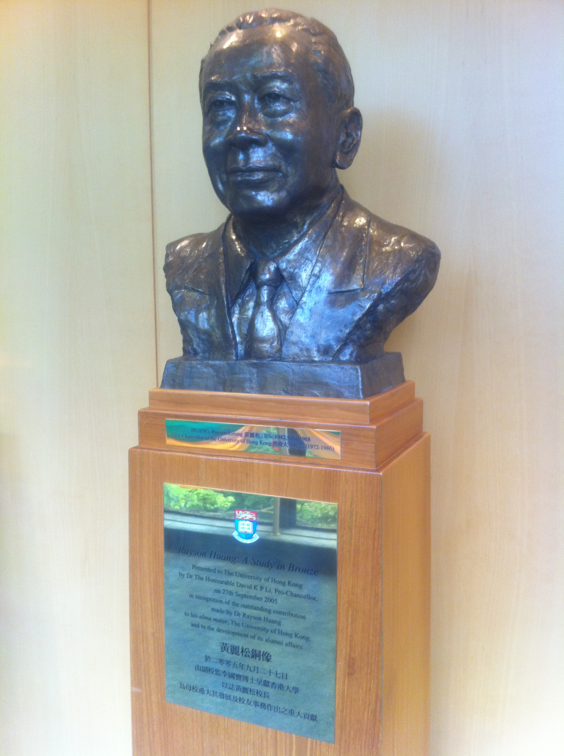 Huang Rayson Theatre, HKU